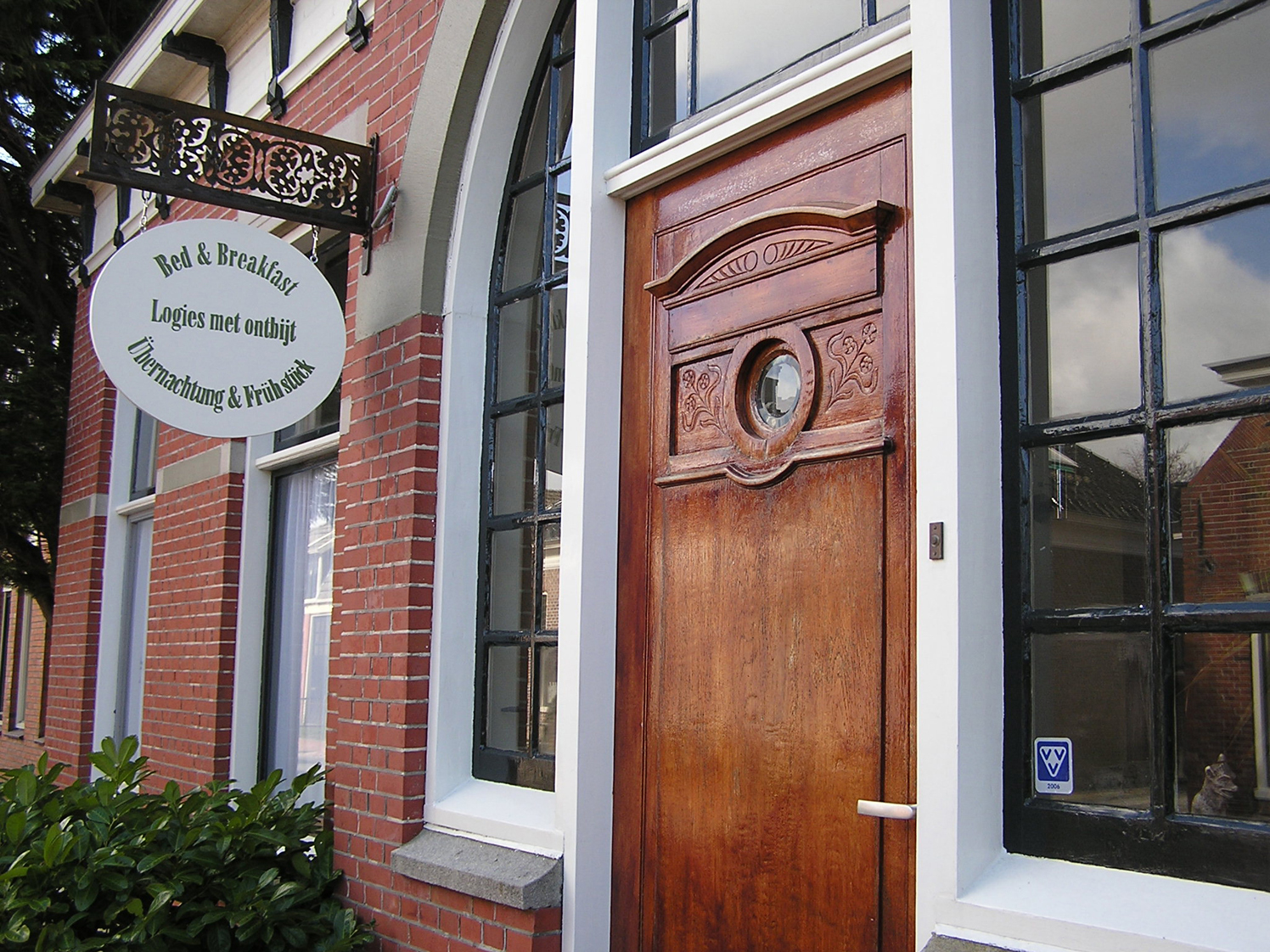 B&B sign